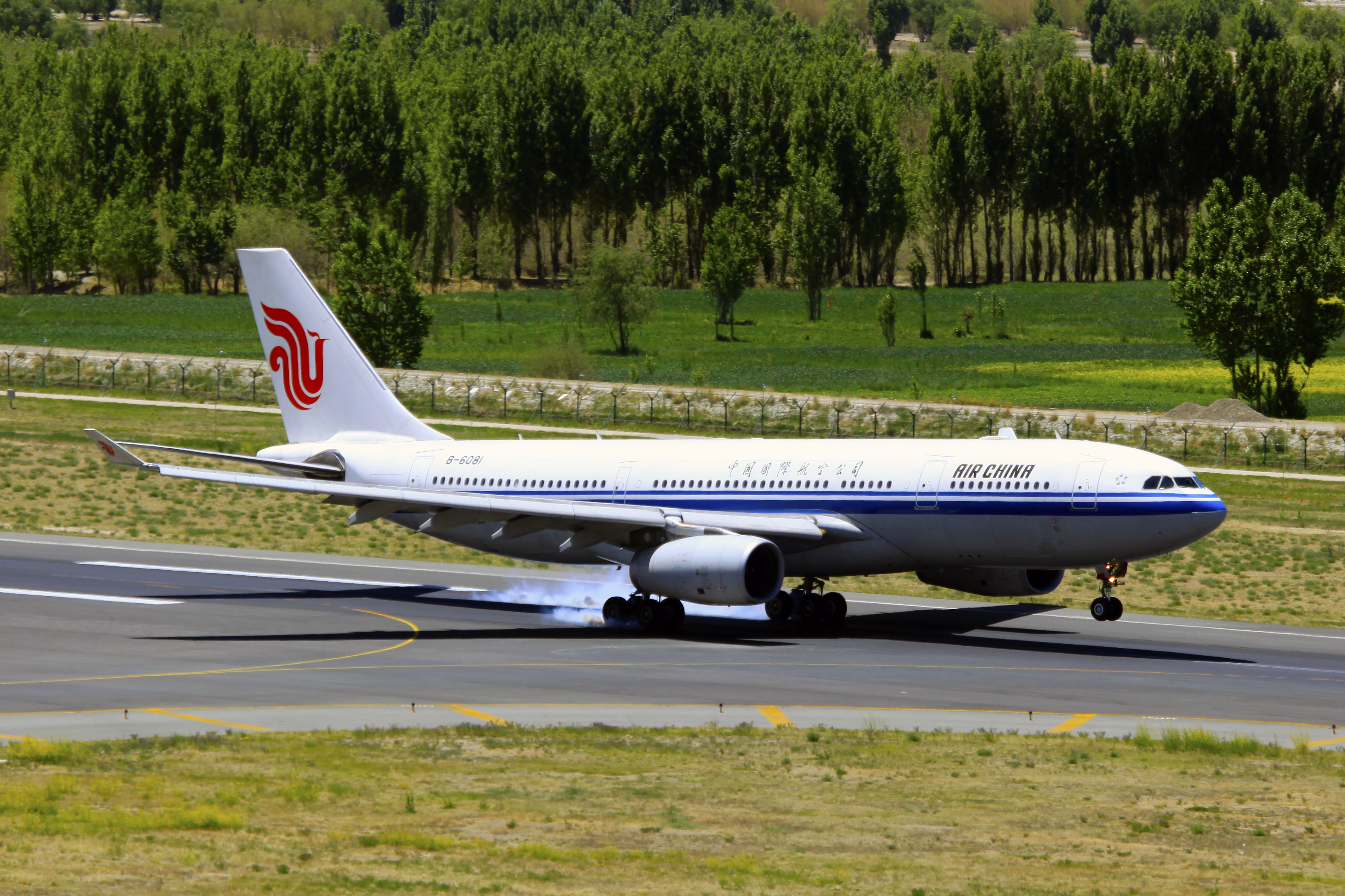 B-6081 | Air China | Airbus A330-243 | Lhasa Gonggar Airport [LXA]